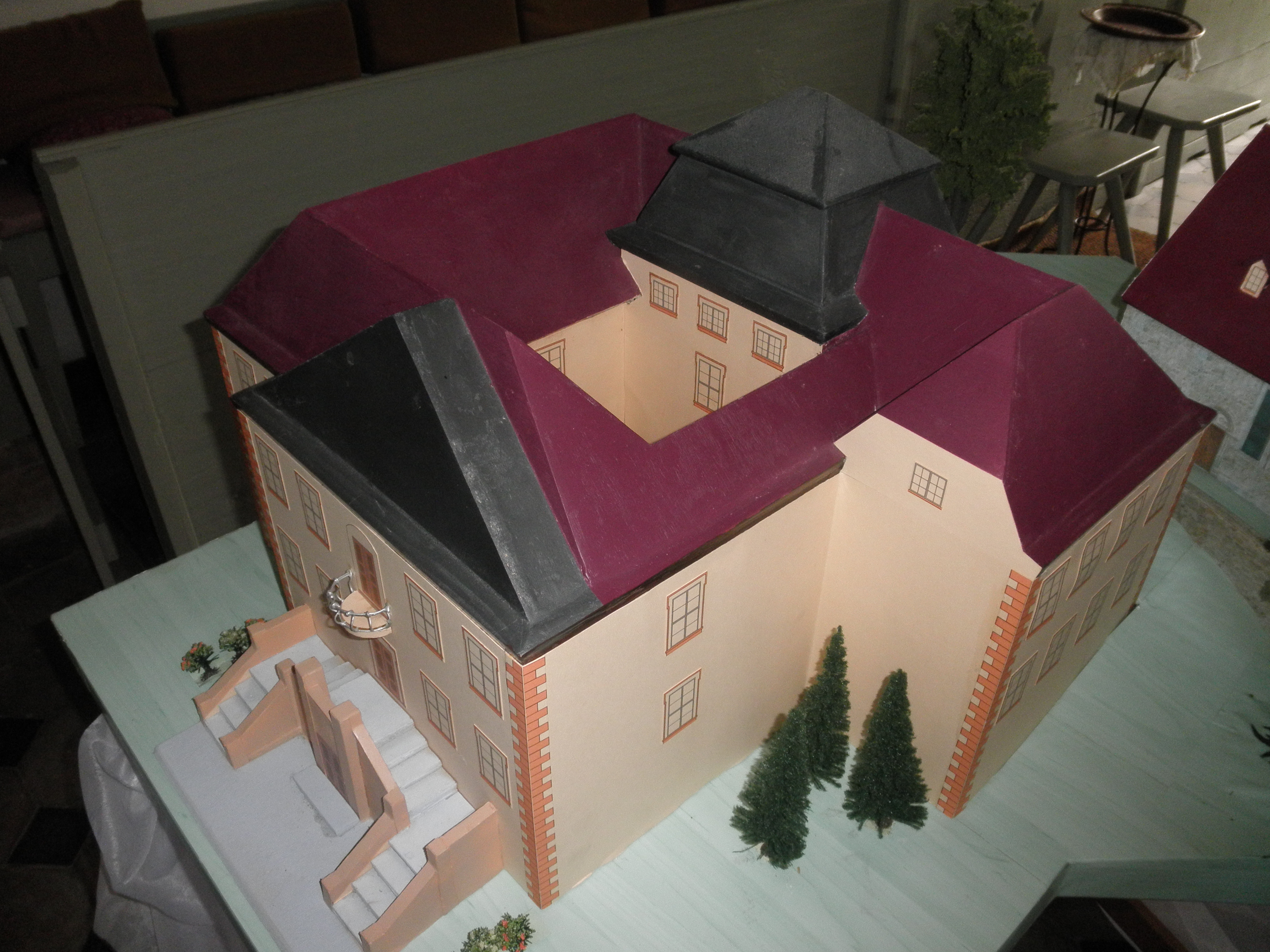 Castle in Griesheim (Thuringia)